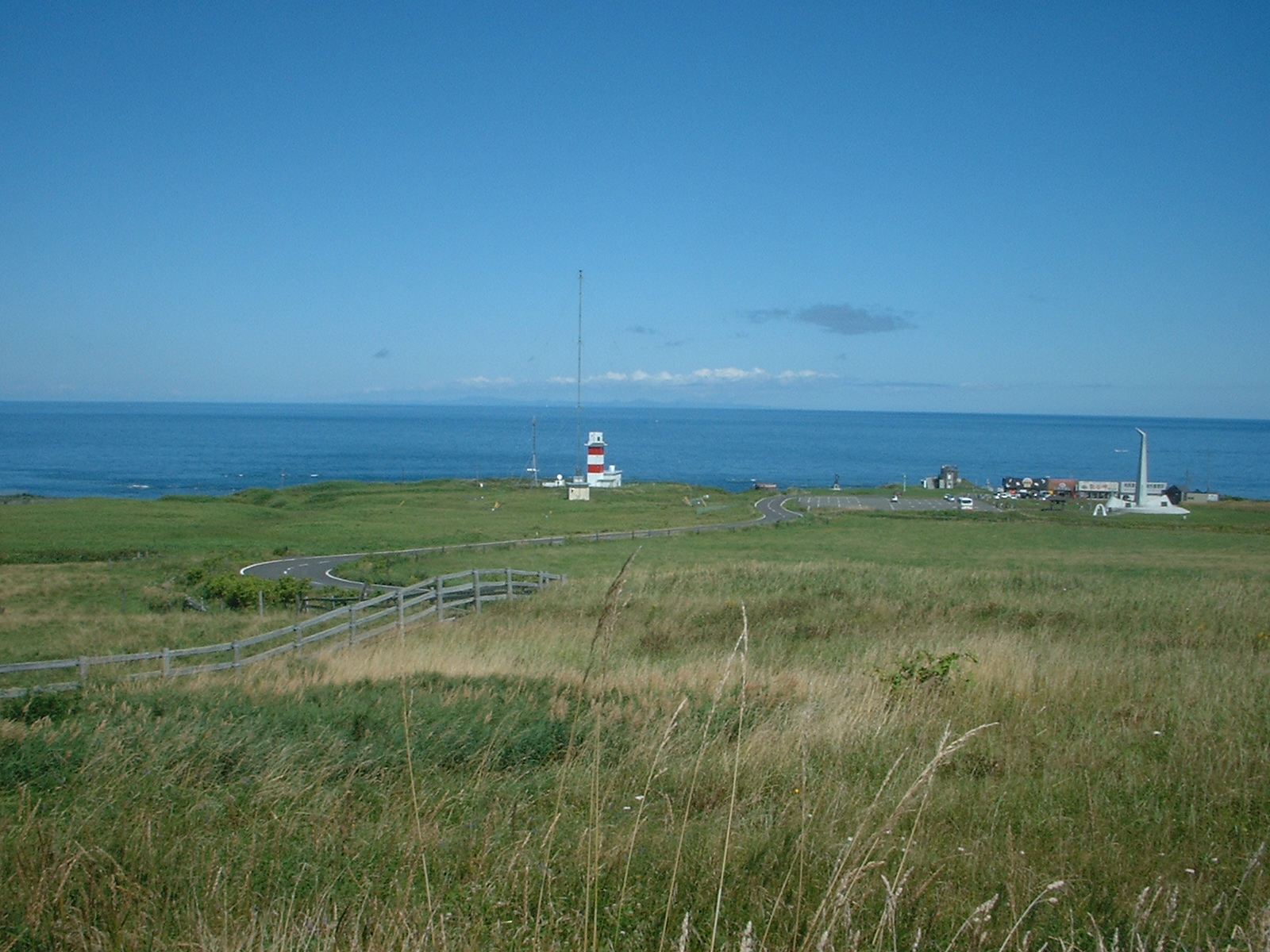 Karafuto(Sakhalin) overlooked from the Soya cape